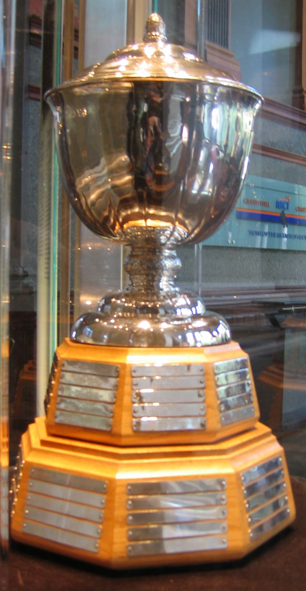 James Norris Memorial Trophy on display at the Hockey Hall of Fame in Toronto. The trophy is awarded annually to the NHL's top defenseman. Taken by Kmf164 on November 19, 2005.